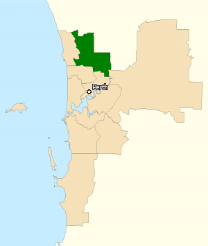 Incorporates or developed using Administrative Boundaries ©PSMA Australia Limited licensed by the Commonwealth of Australia under Creative Commons Attribution 4.0 International licence (CC BY 4.0). Derived from State and Territory Boundaries from the Australian Bureau of Statistics under Creative Commons Attribution 2.5 Australia license (CC BY 2.5 AU)